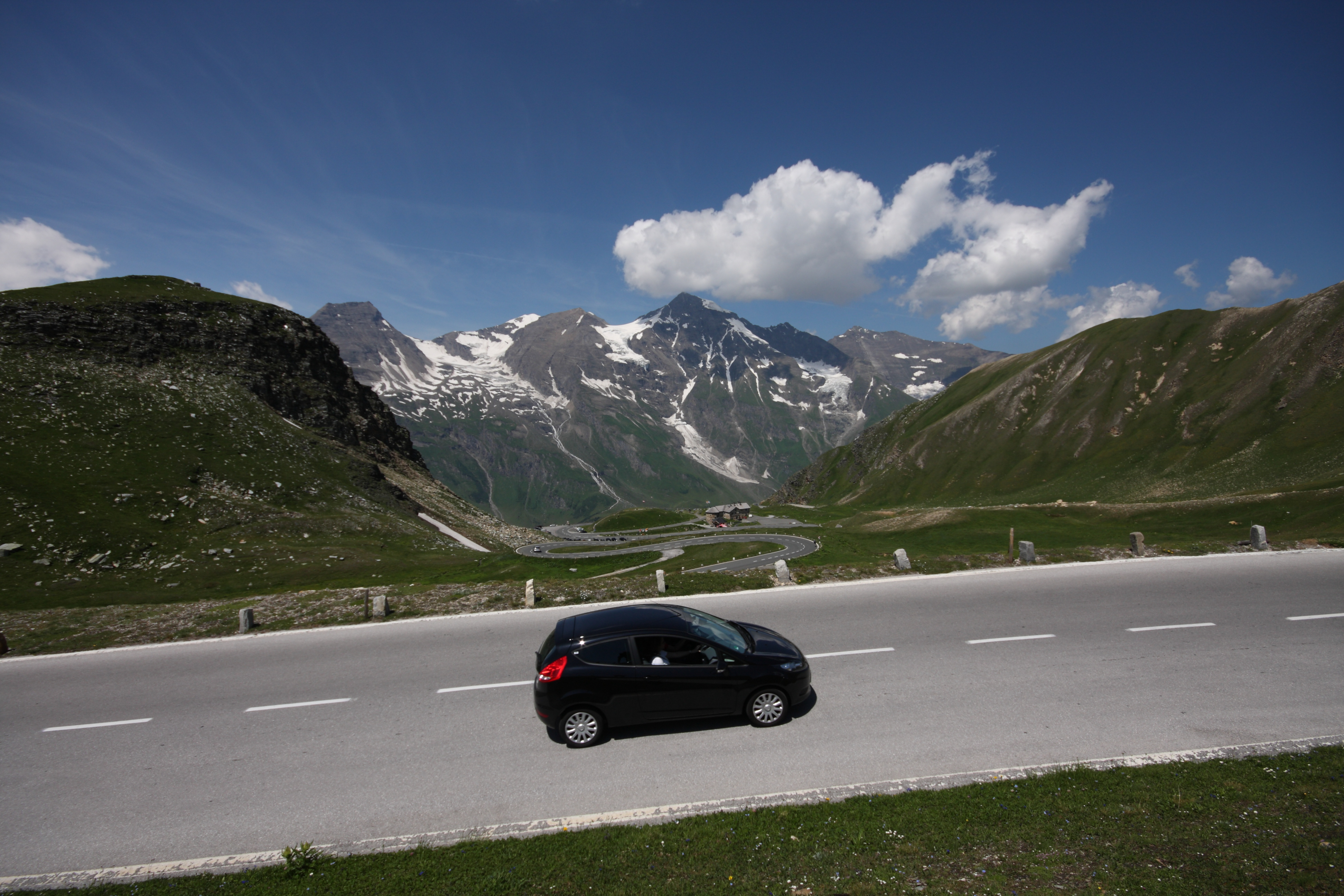 Grossglockner High Alpine Road, Austria